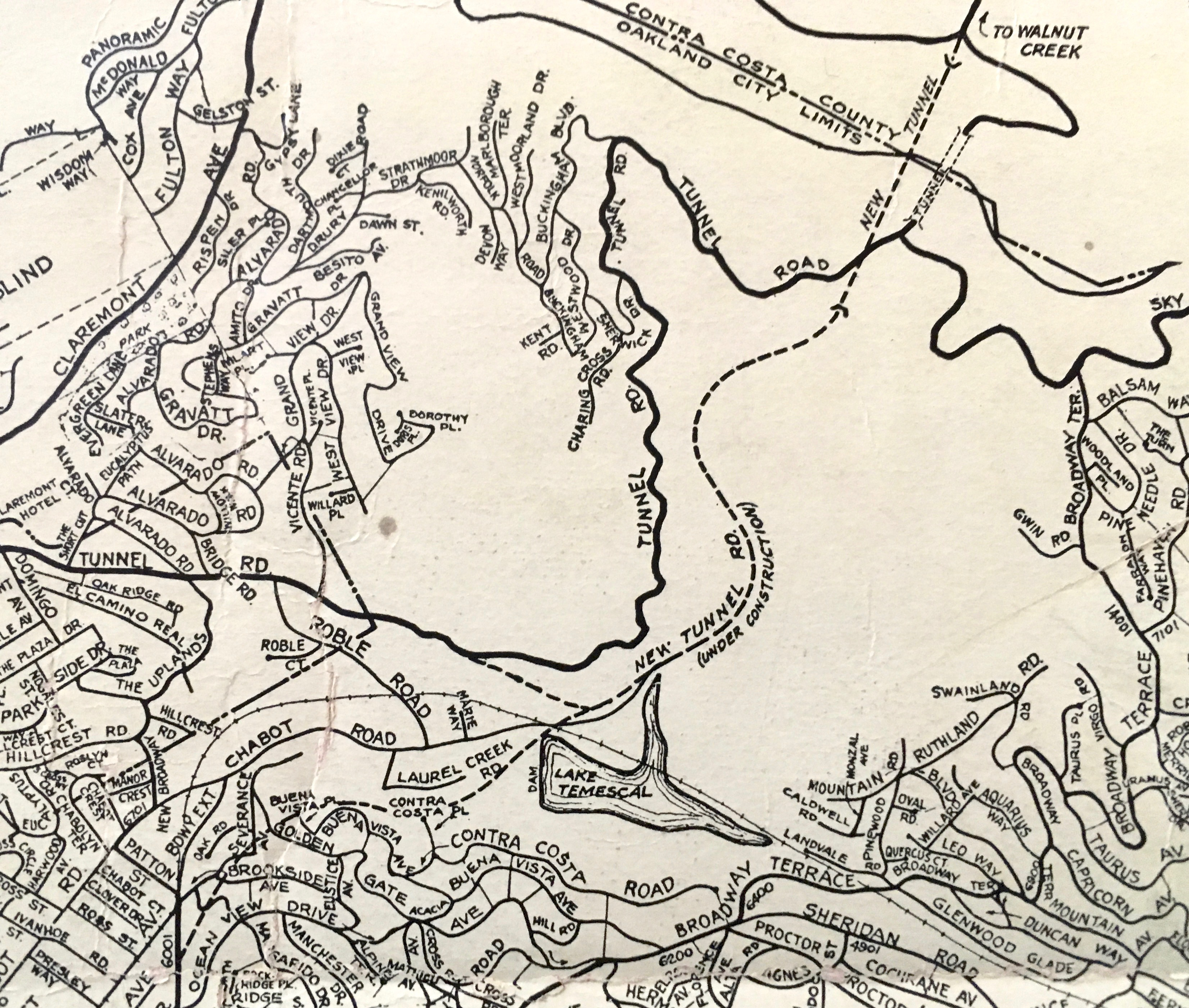 Street map showing the current and being built bypass from the East Bay to Walnut Creek